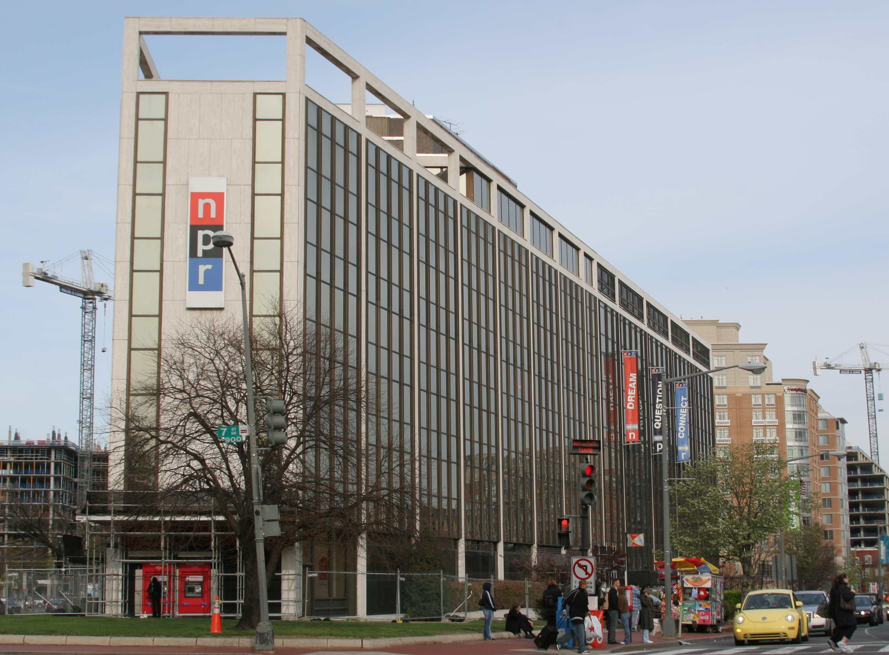 National Public Radio headquarters in Washington, D.C.